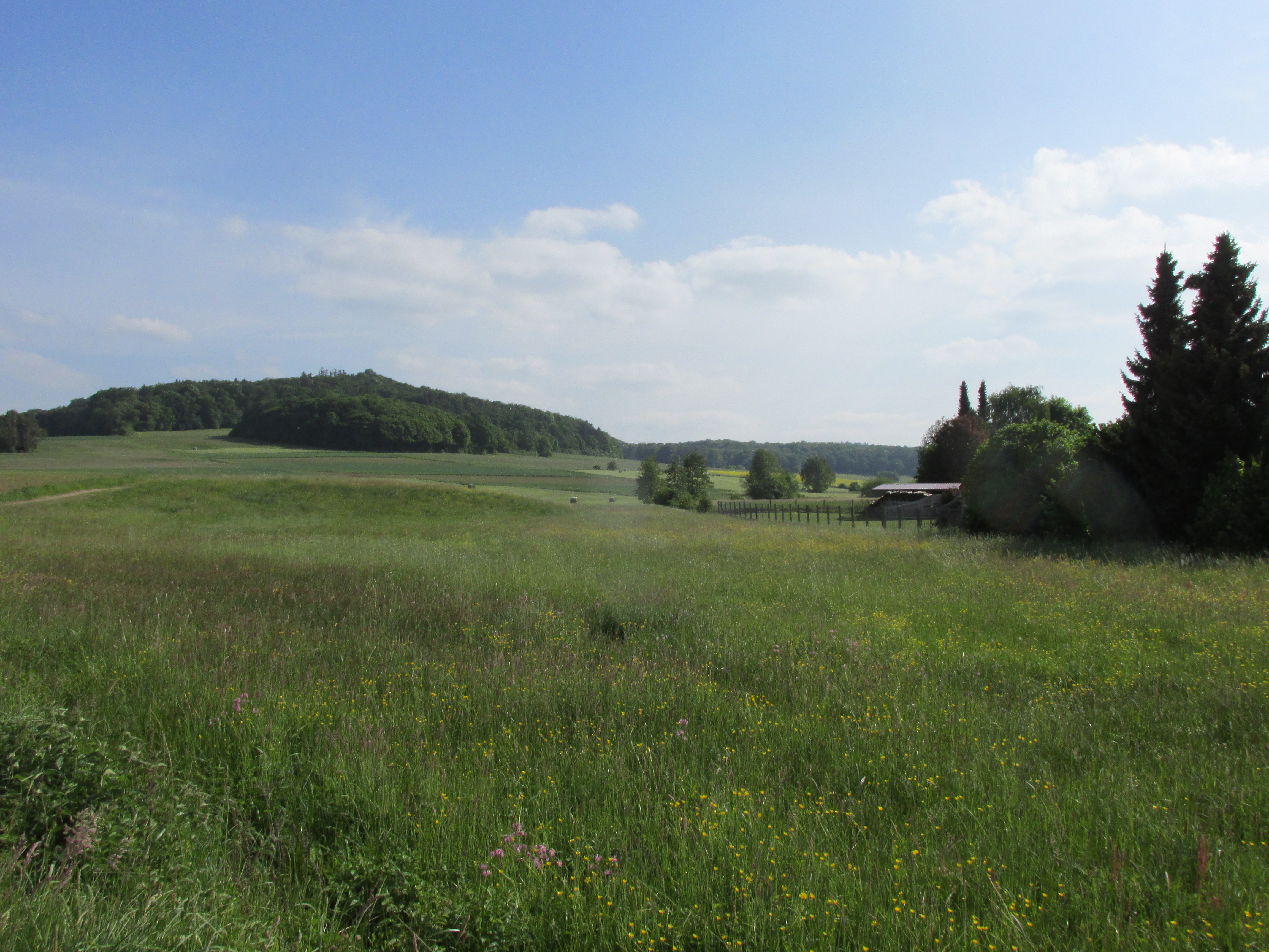 Special Areas of Conservation Maculinea-Schutzgebiet bei Neustadt (5120-302), Neustadt (Hessen), Germany check usage